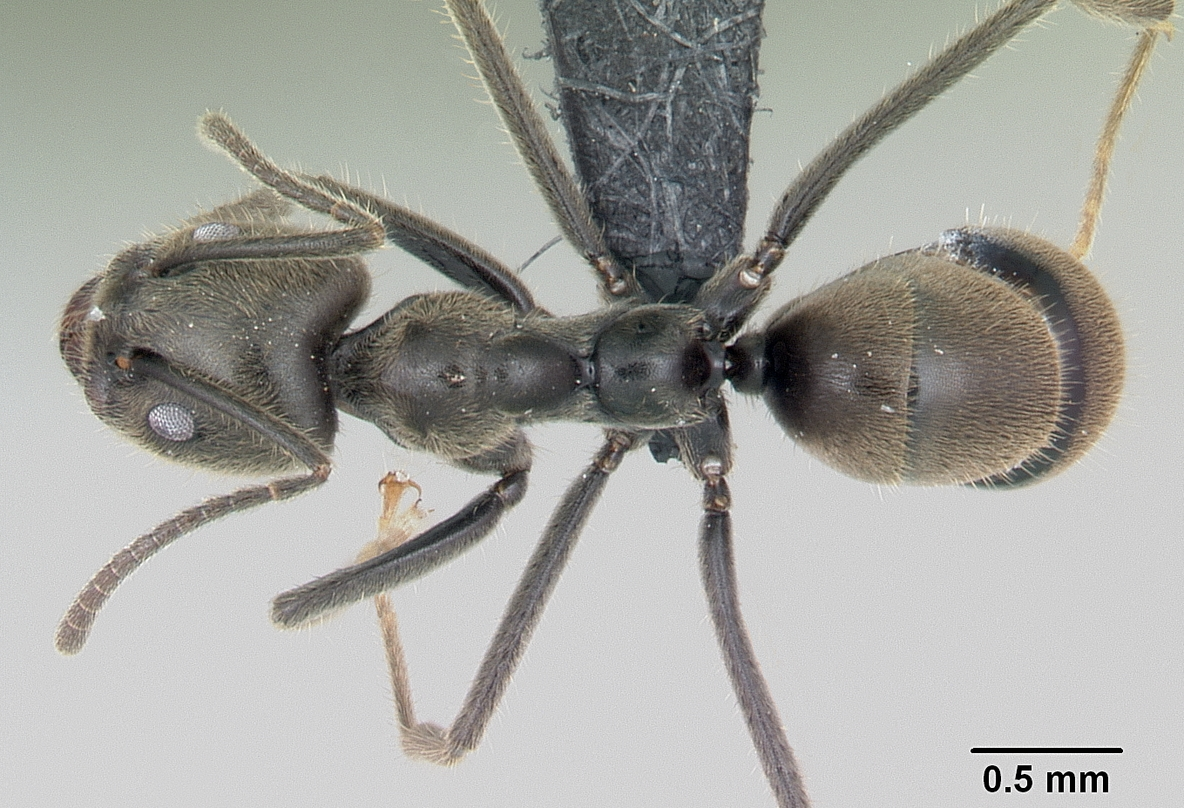 Dorsal view of ant Anonychomyrma gilberti specimen casent0069883.